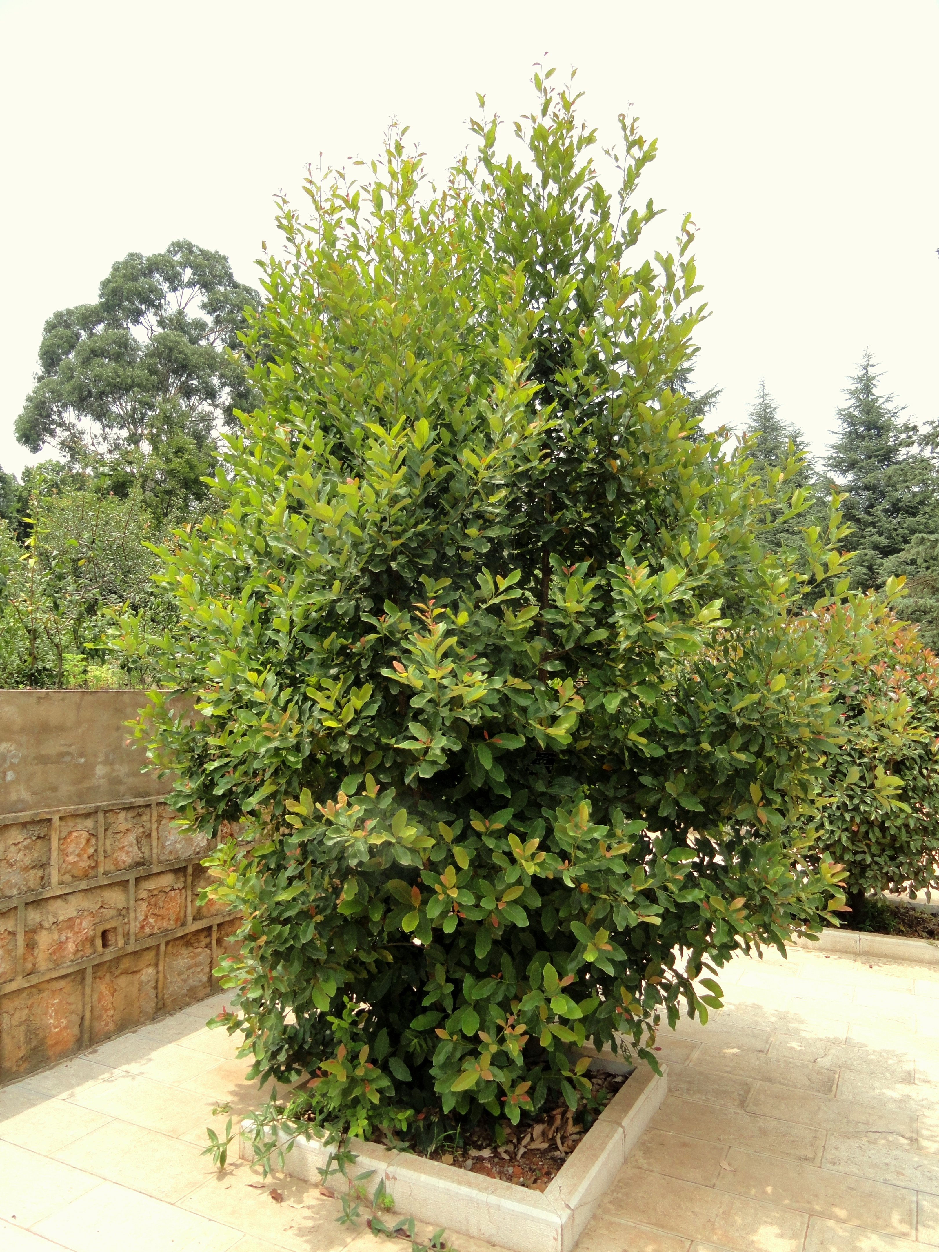 Plant specimen in the Kunming Botanical Garden, Kunming, Yunnan, China.